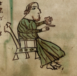 Judge. From a Latin copy of the Laws of Hywel Dda, which belongs to one of the National Library of Wales's foundation collections of manuscripts, the Peniarth Manuscripts.